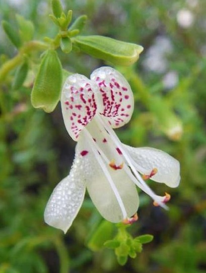 Dicerandra christmanii USFWS photo